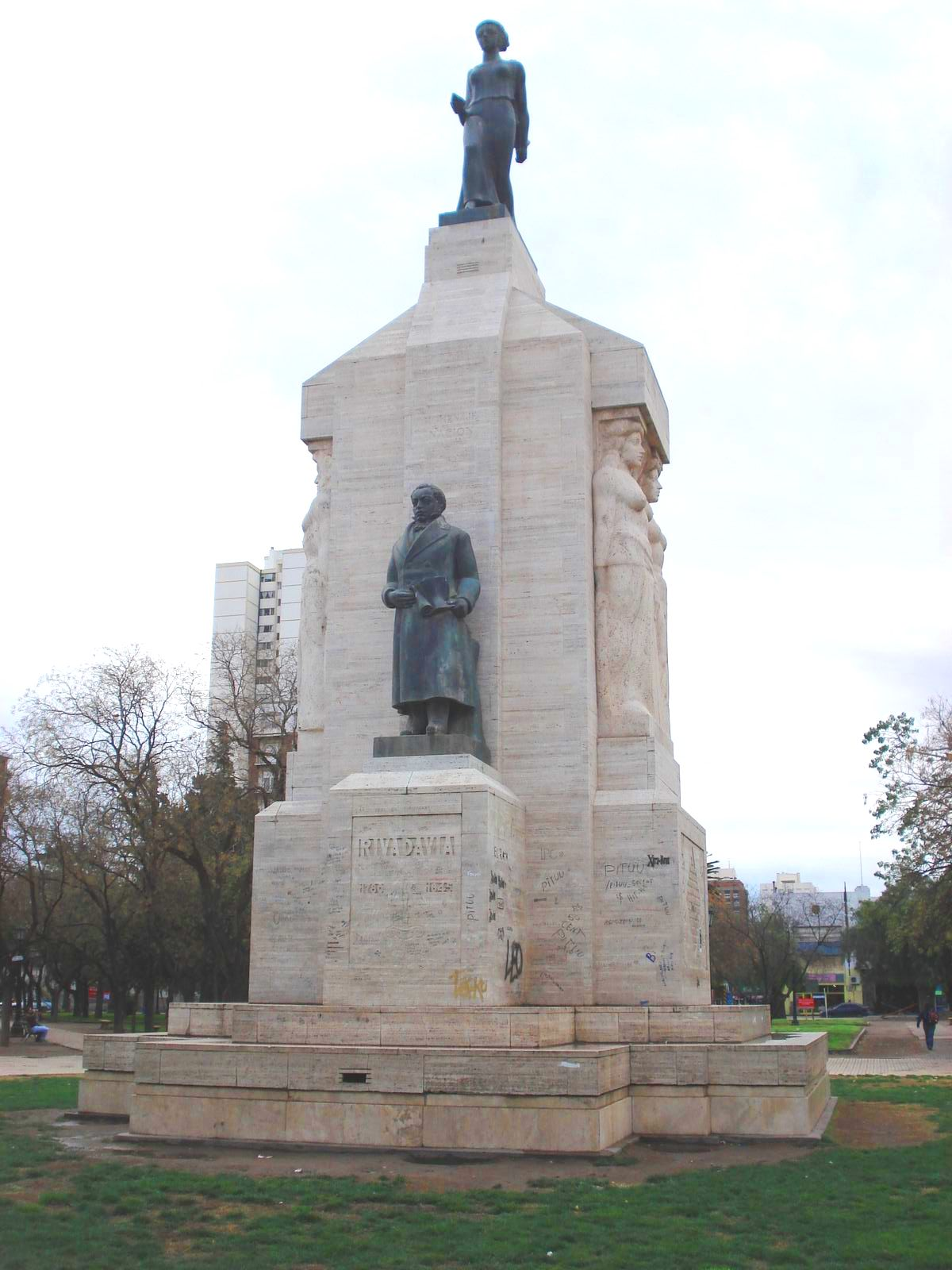 Monument to Bernardino Rivadavia, the first Constitutional President of Argentina, in the city of Bahía Blanca. The monument was created by Luis Rovatti and unveiled in 1946.